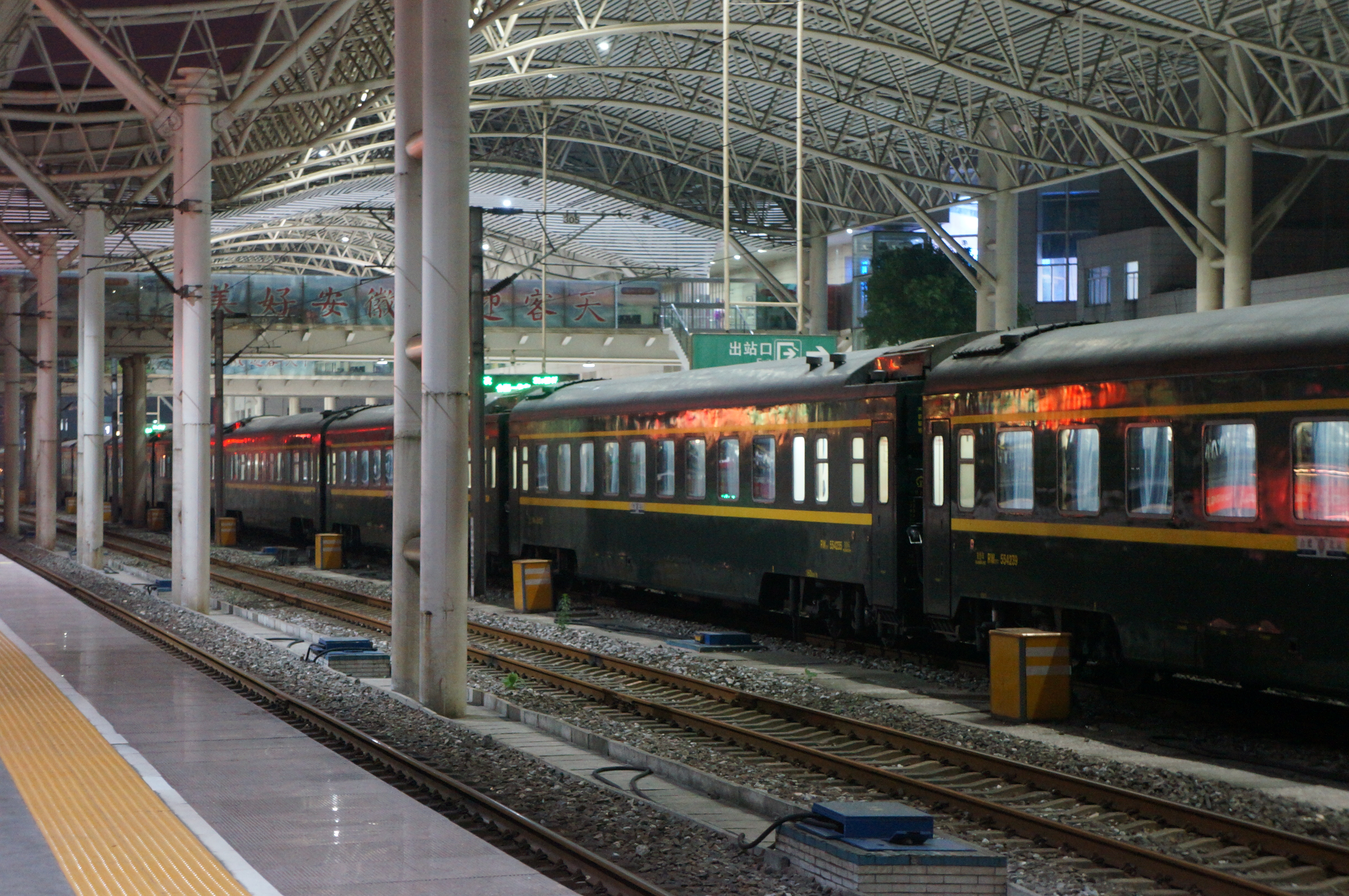 201705 Coaches of Z226 at Hefei Station